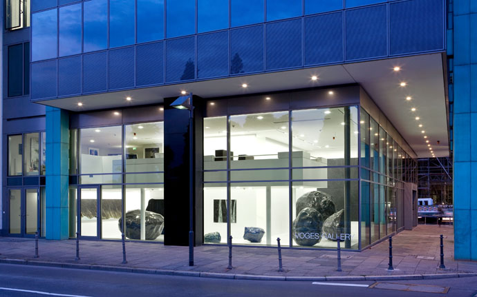 VOGES GALLERY, Exterior View by night